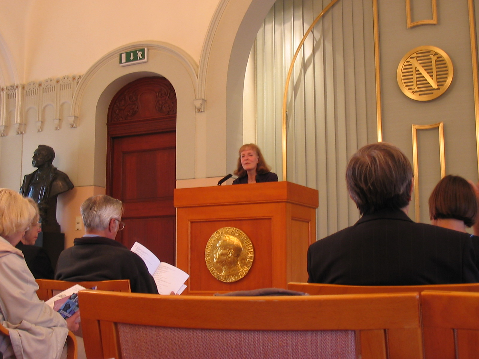 Norway, Oslo, Nobel Institute: Nobel Hall where are announced the year's Peace Prize in October and the Laureate's press conference on December 9. Photo taken during a guided tour